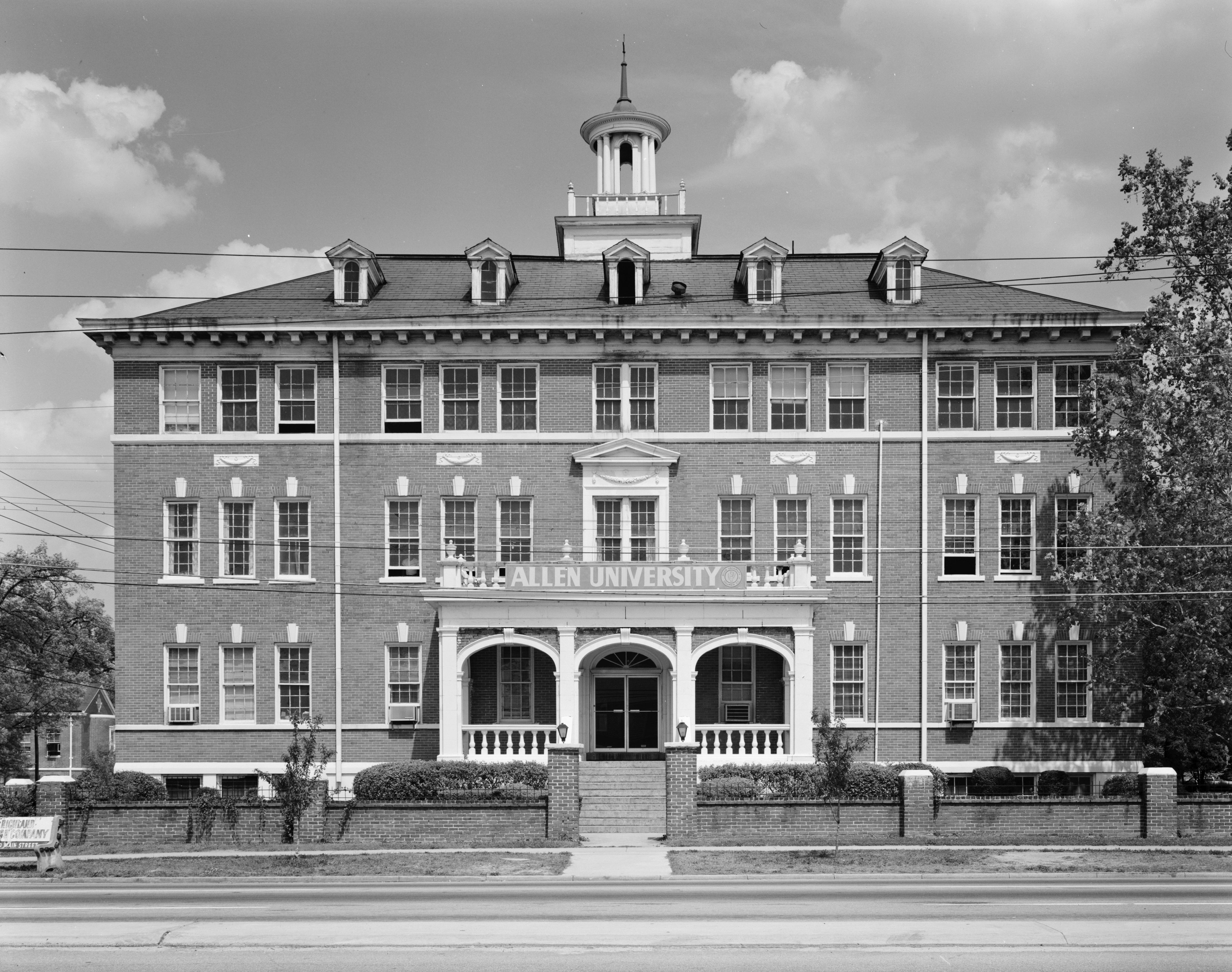 Allen University, Chapelle Administration Building, 1530 Harden Street, Columbia, Richland County, SC (cropped)